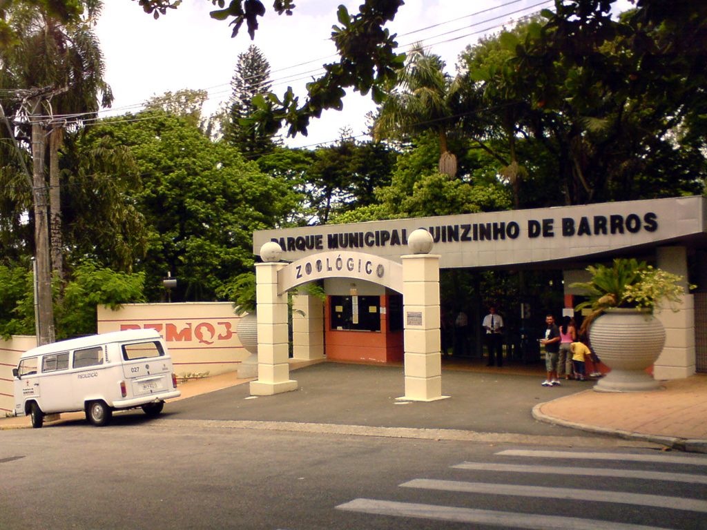 Main entrance to the Parque Zoológigo Municipal Quinzinho de Barros at Sorocaba - SP - Brazil